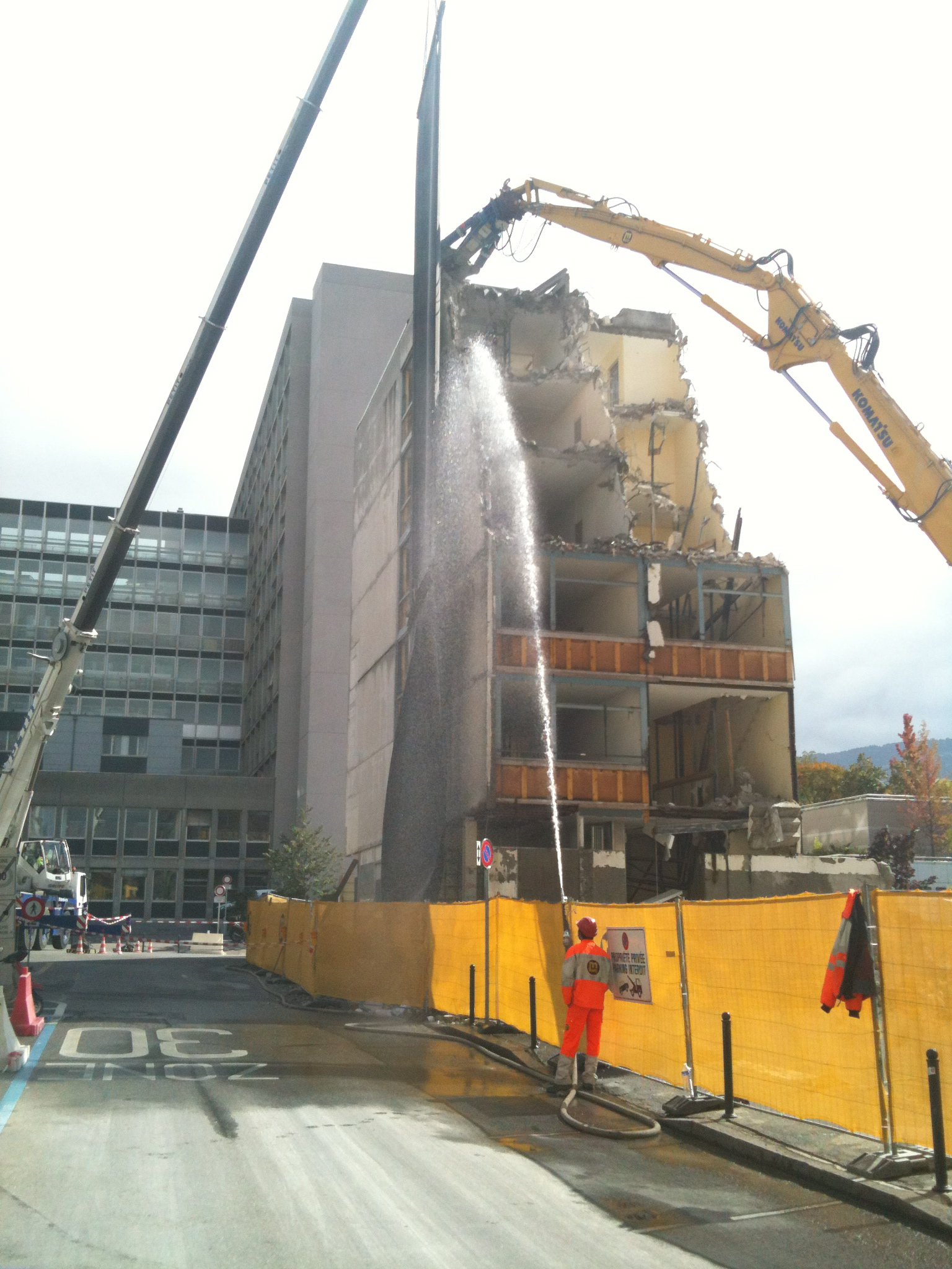 Demolition of a building in Geneva